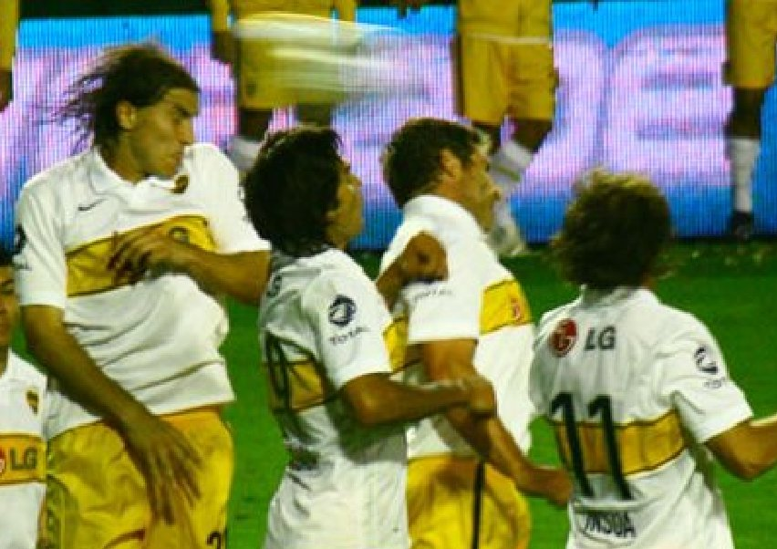 Boca Juniors players defending a free shot (barrera). The second from right is Martín Palermo.